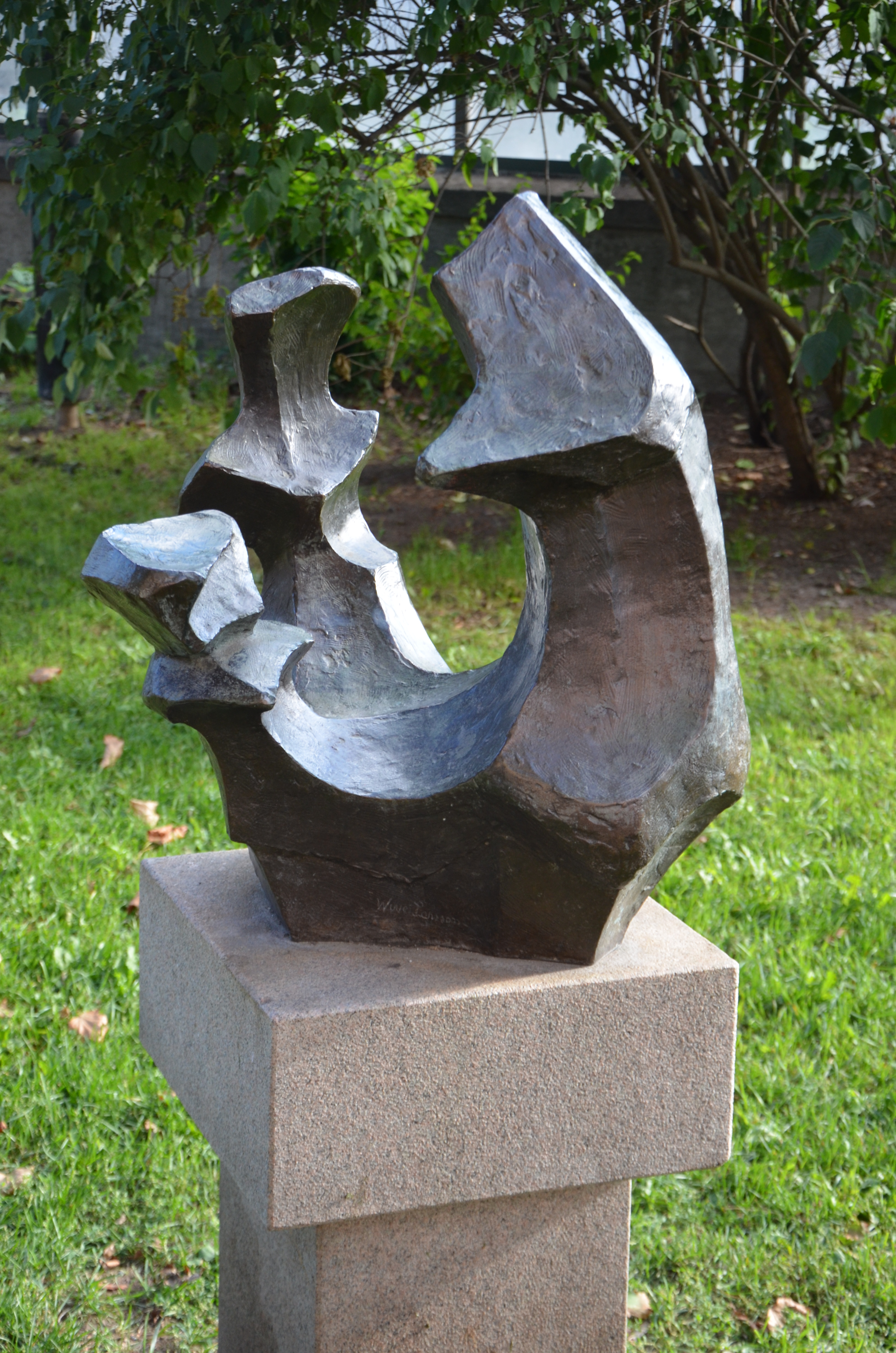 Treklang av Wive Larsson, Atlastäppan i Vasastan i Stockholm